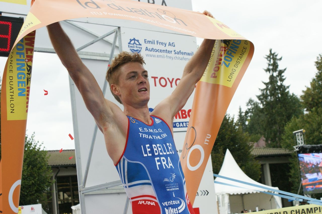 Der Franzose Gaël Le Bellec